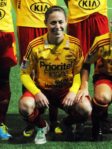 Meghan Klingenberg (Tyresö FF) before a Champions League match against Paris-Saint-Germain, October 2013.